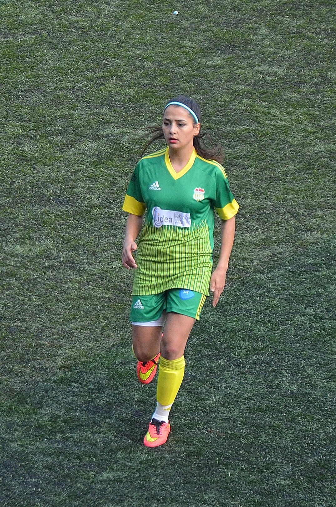 Büşra Taşkın playing for Kireçburnu Spor in the 2015-16 season